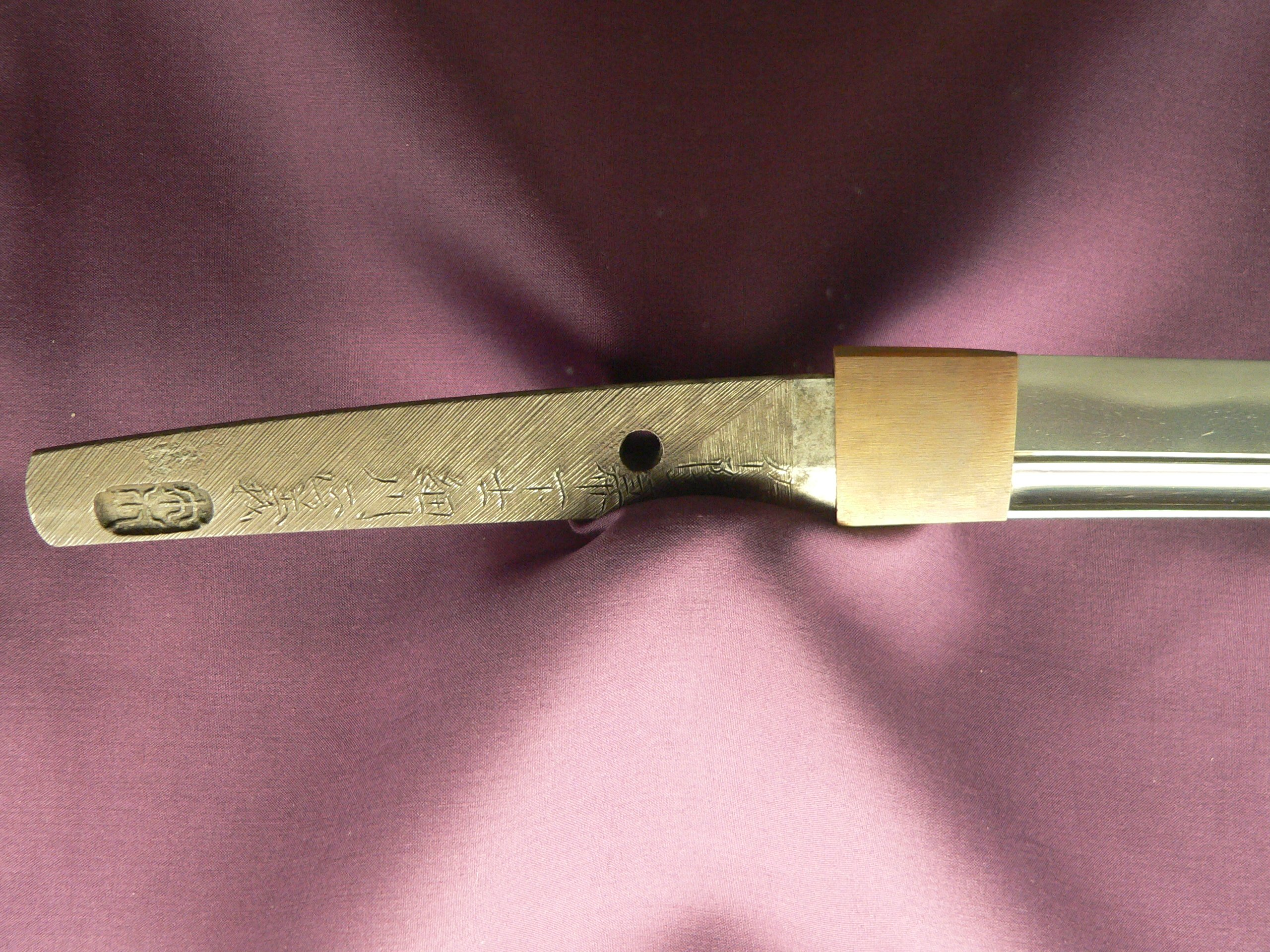 Wakizashi nakago (tang) showing the mei (signature).